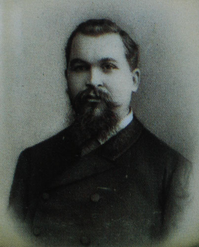 The russian goldsmith Michael Evlampievich Perchin (1860-1903).